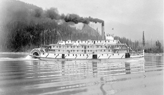 photograph of Bonnington sternwheel steamboat